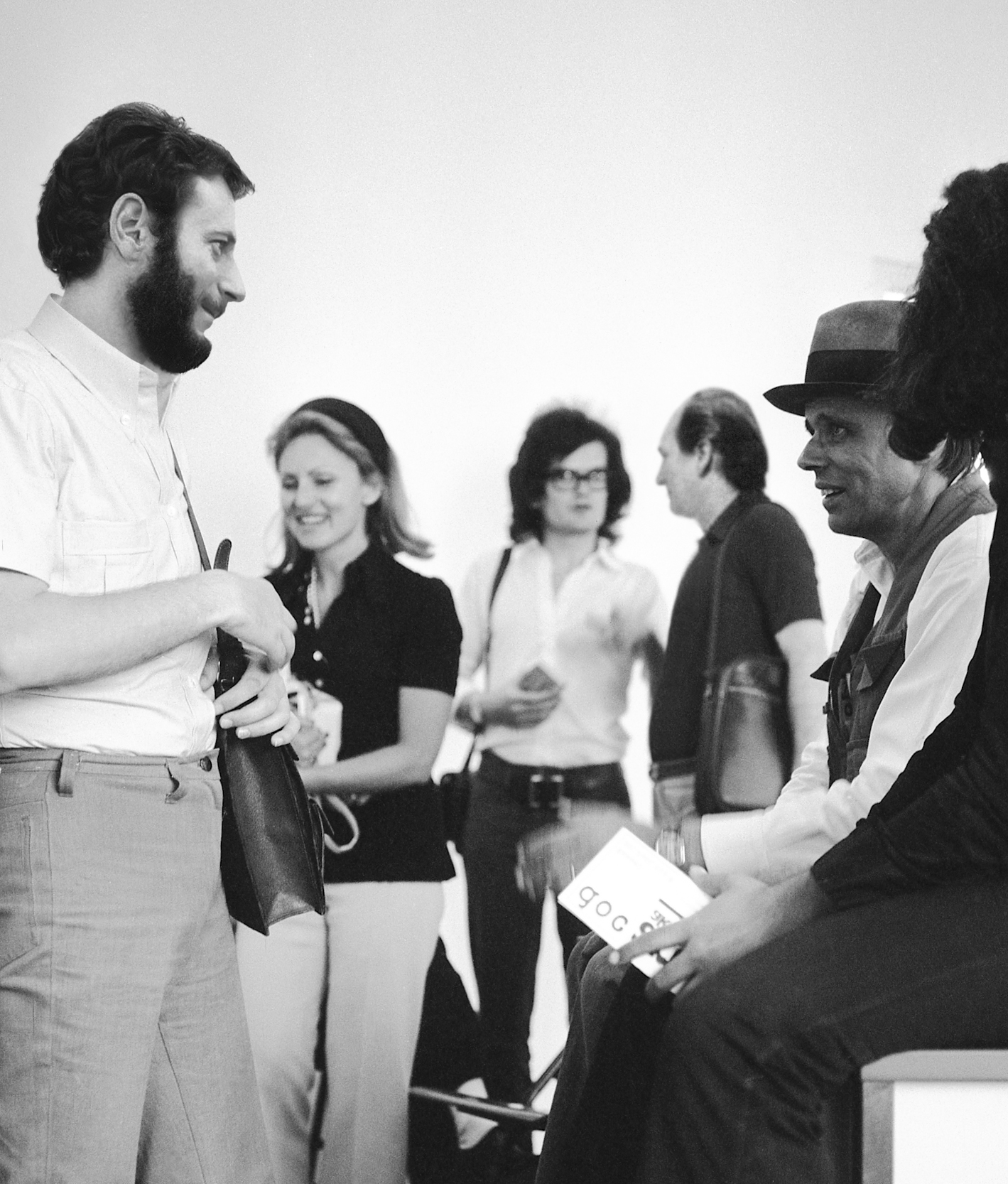 1972, Umberto Mariani, Joseph Beuys, Jean Pierre Van Tieghem, Documenta 5, Kassel